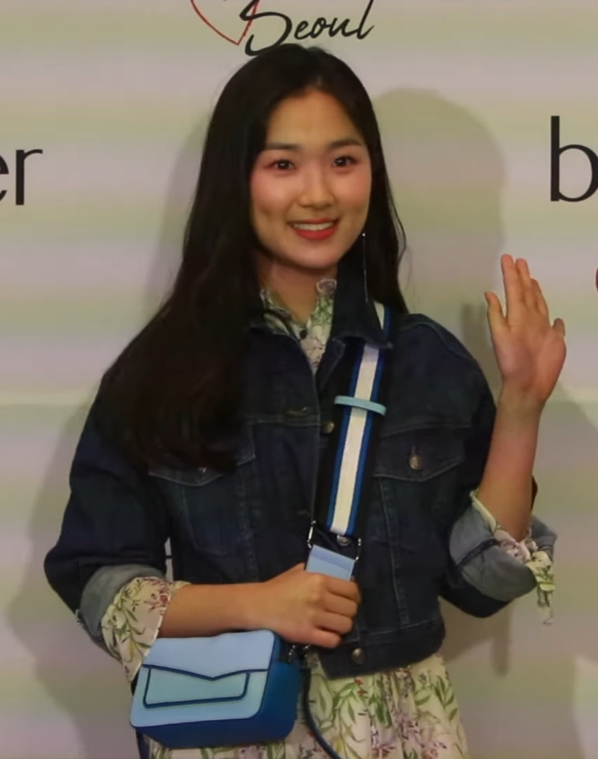 Kim Hye-yoon in botkier's official launching event, April 2019